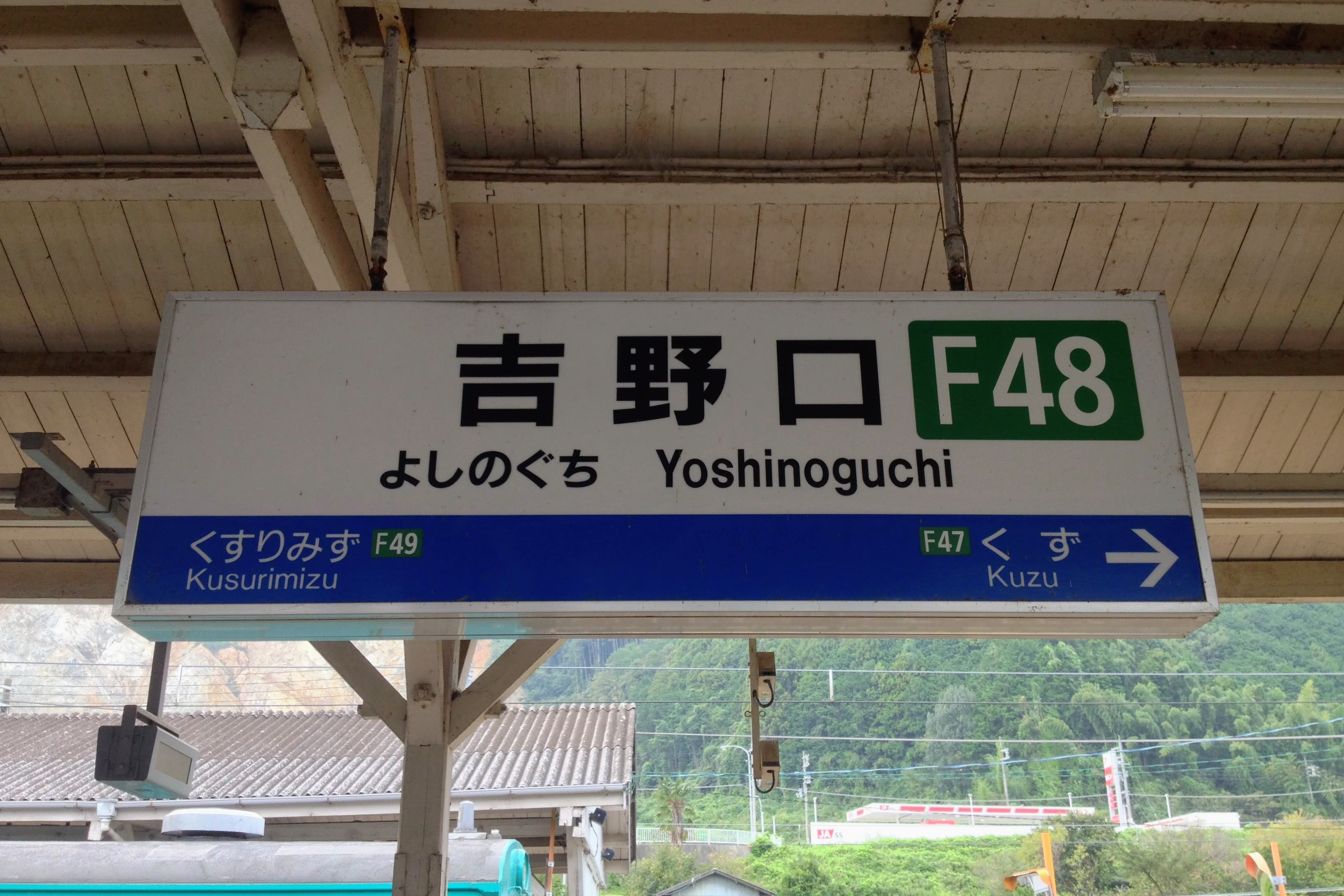 The station sign at Yoshinoguchi Station in Gose, Nara Prefecture, Japan